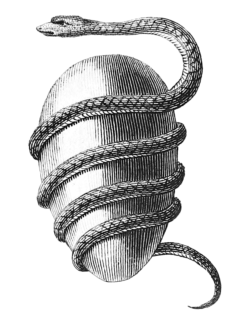 The Orphic Egg. "Ophis et ovum mundanum Tyriorum". Snake and world egg of the inhabitants of Tyre.